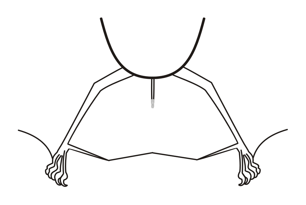 According to Husson, 1962 shows interfemoral membranes, calcar, feet and tail in bats of genus Lichonycteris